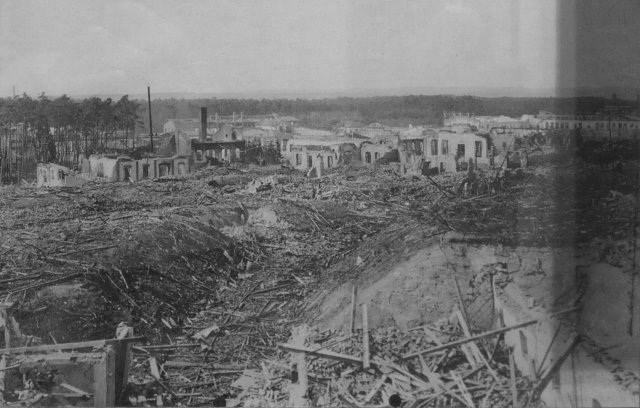 Škoda ammunition factory destruction in 1917 (Bolevec, Pilsen)